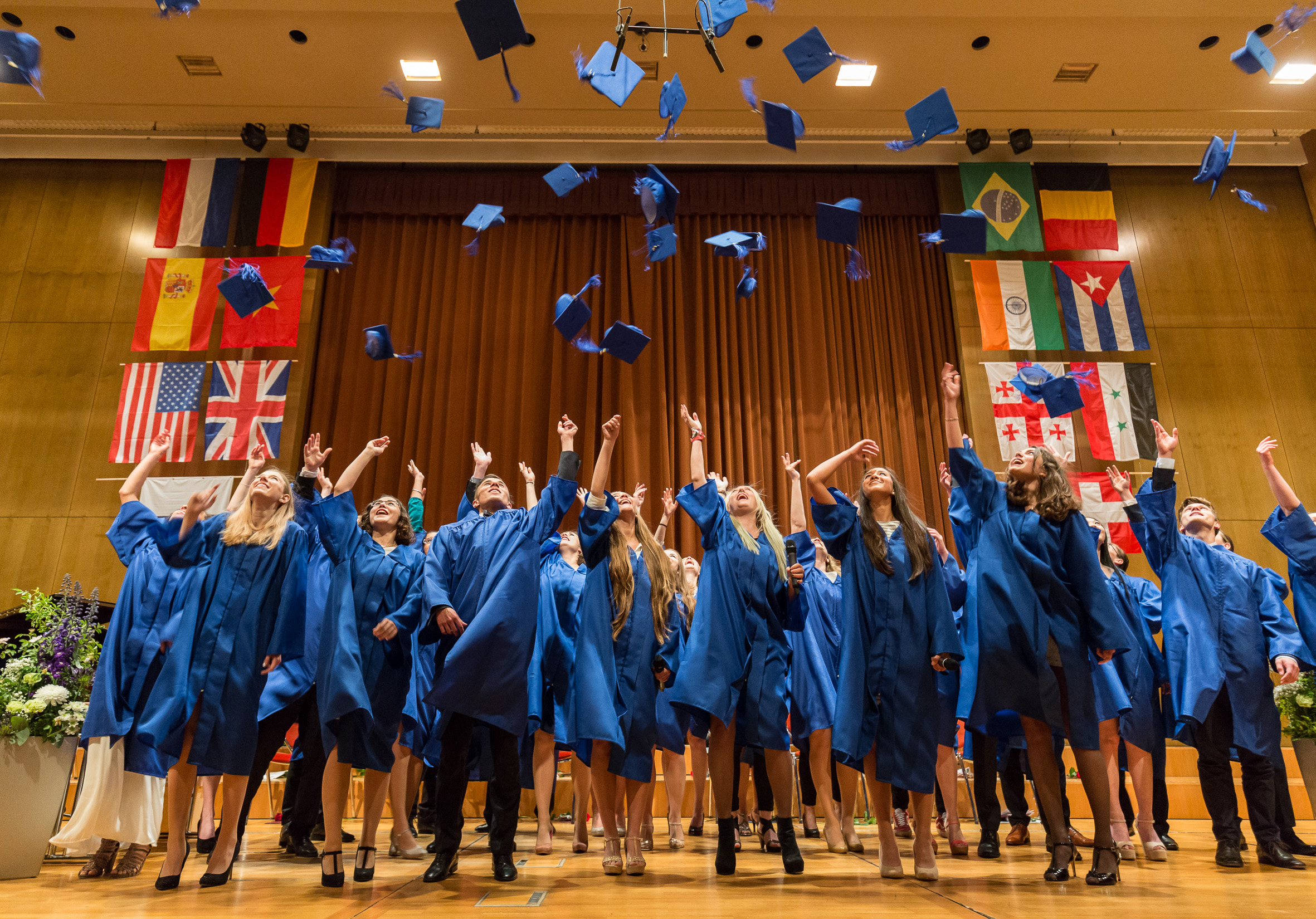 Leipzig International School – IB Graduation Ceremony 2015/Photo: Peter Usbeck